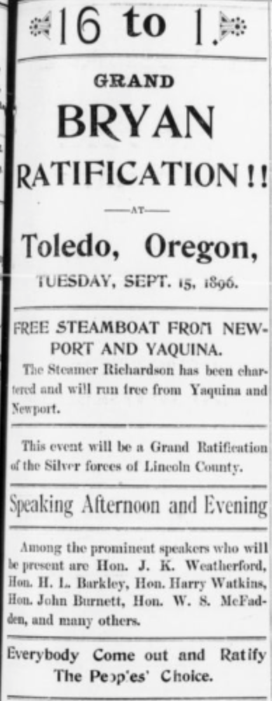 Advertisement for an excursion for a rally for presidential candidate William Jennings Bryan